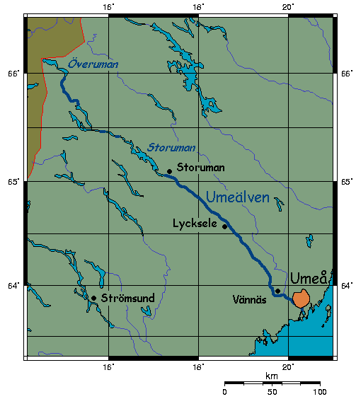 Map of the river Umeälven, Sweden (in the upper left corner is Norway) map made by User:Nordelch with help of